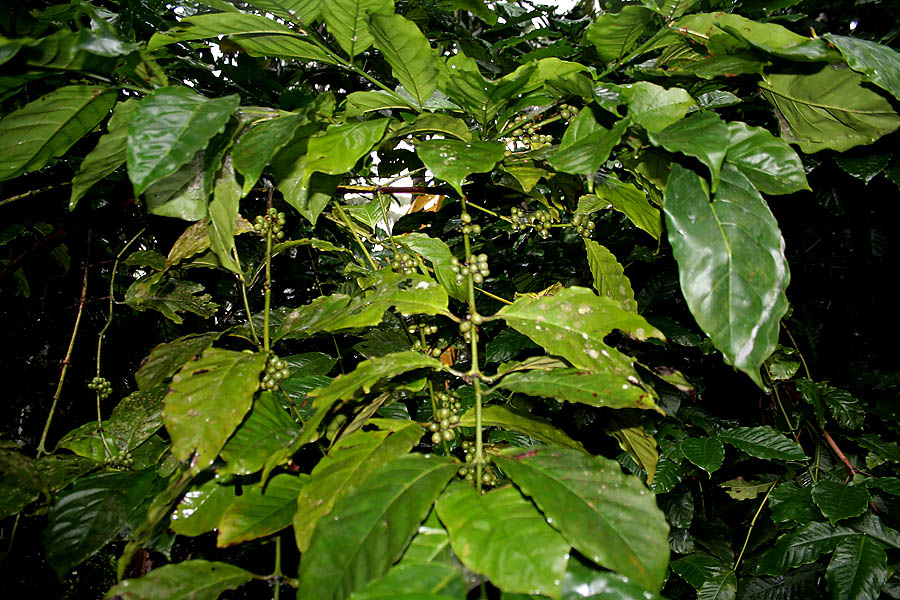 Robusta Coffee plant Coffea canephora in Goa, India.